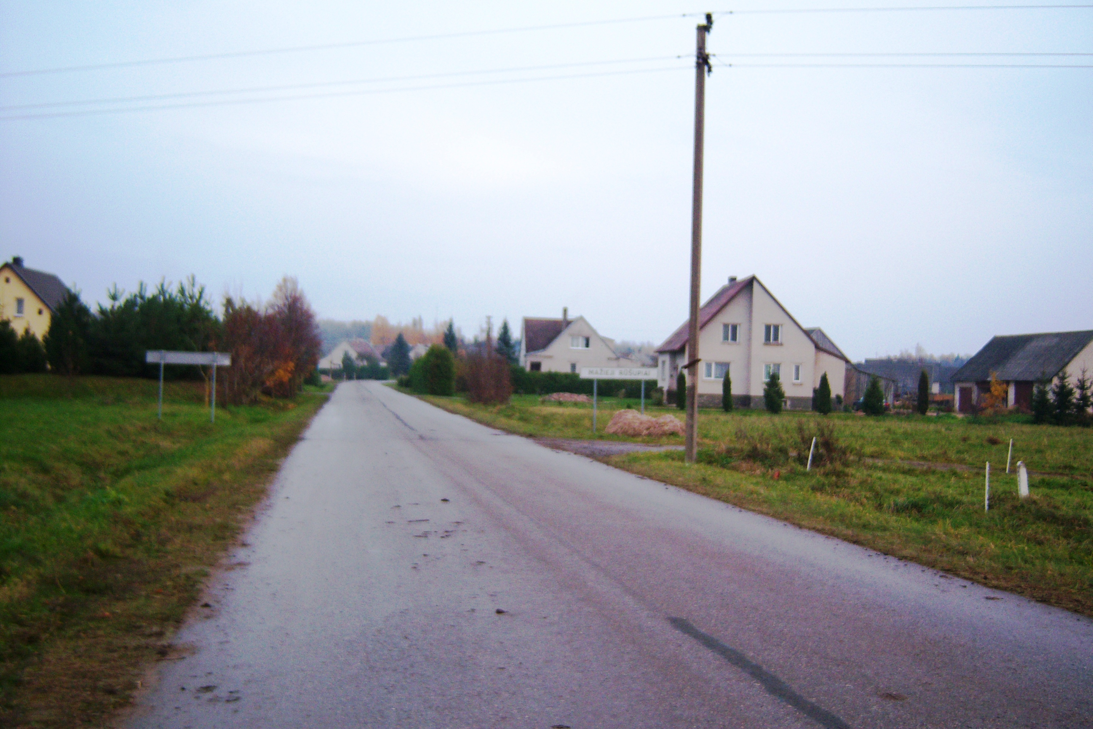 Mažieji Rūšupiai, Skuodas District. Lithuania